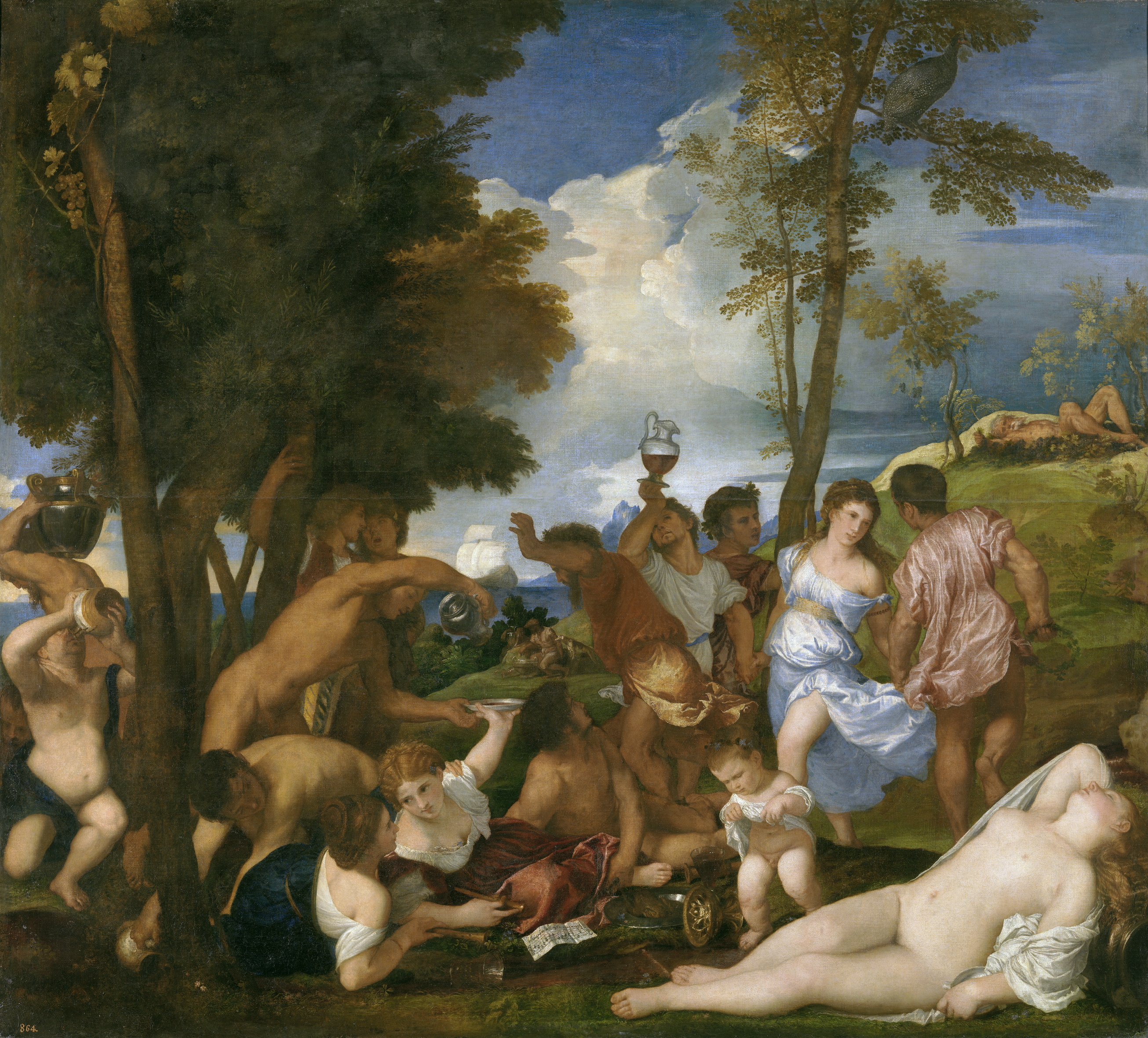 The island of Andros was so favored by Bacchus that a stream flew with wine. Gods, men and children celebrate the effects of wine, whose consumption, in Philostratus´ words, makes men rich, dominant, generous to their friends, handsome and four cubits high. A nude nymph lies in the foreground, and Silenus in the background. The music on the score in the lower center of the composition has been attributed to Adriaen Willaert, a Flemish composer active in the Court of Ferrara. Its lyrics, Qui boyt et ne reboyt il ne seet que boyre soit (“He who drinks and doesn't drink again, doesn't know what drinking is”.) refer to the celebration of wine.